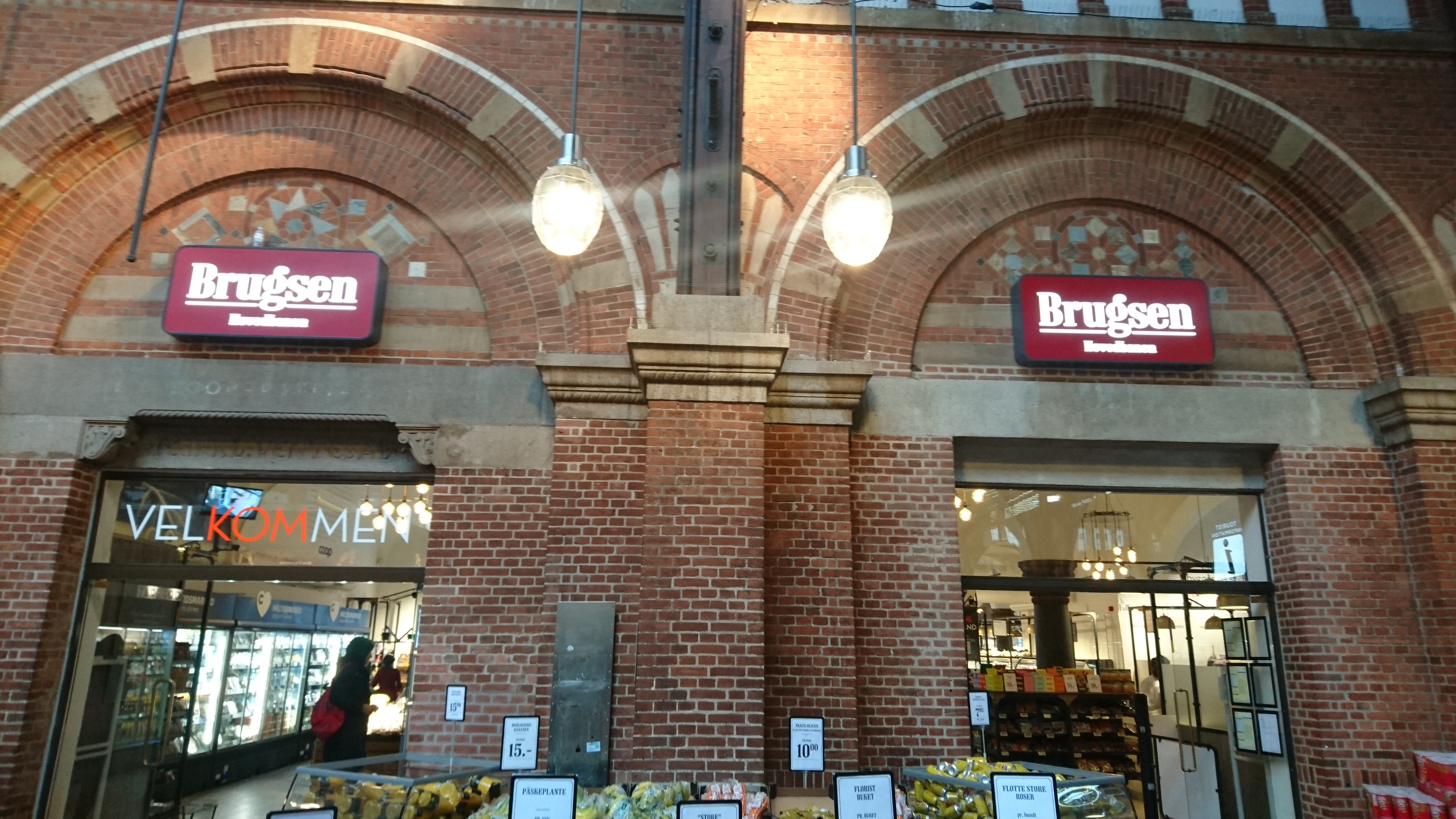 The front of Brugsen, inside the hall of Copenhagen Central Station. 2017